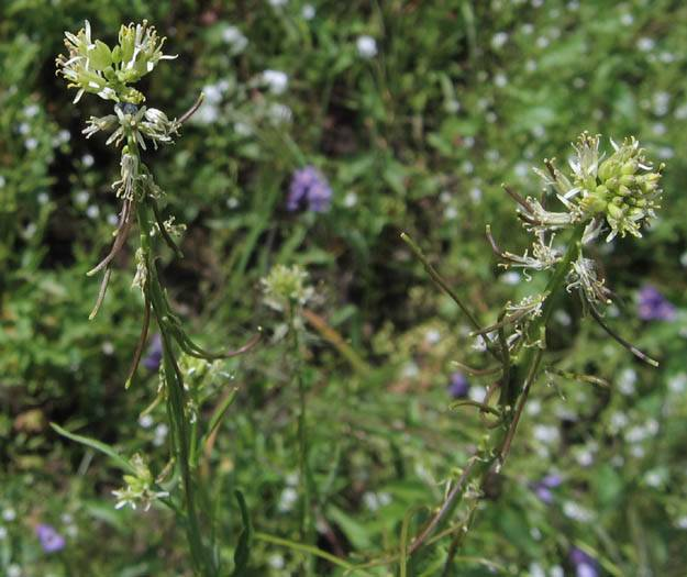 Guillenia lasiophylla — in the Simi Hills. Taken at the Cheeseboro and Palo Comado Canyons Open Space preserve: Sheep Corral Trail. Santa Monica Mountains National Recreation Area, Ventura County, Southern California. Source NPS photo, no copyright.